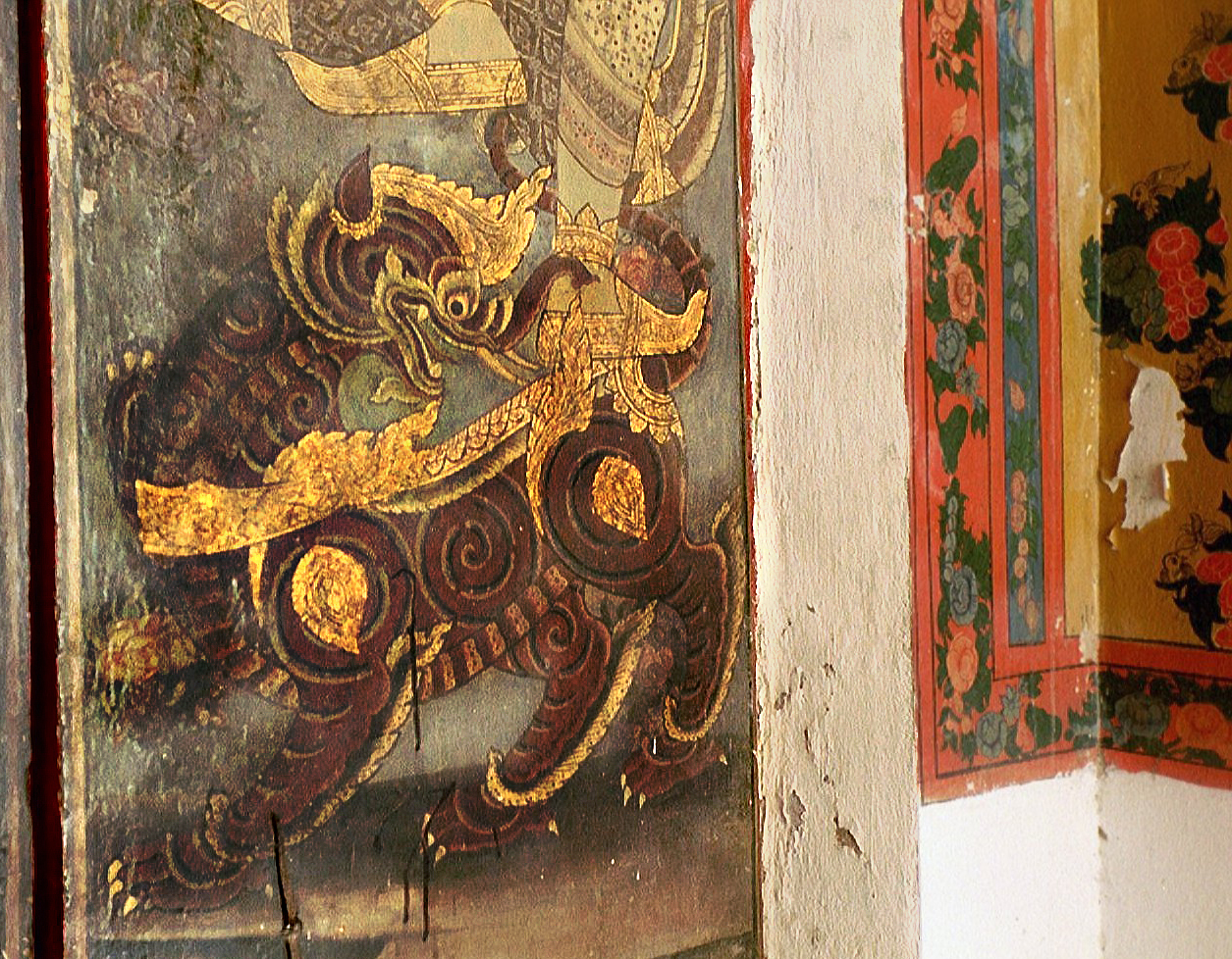 Door painting of mythical animal called Kochasri, it is is a mixed lion that borrows head features from an elephant, Wat Arun, Bangkok, Thailand